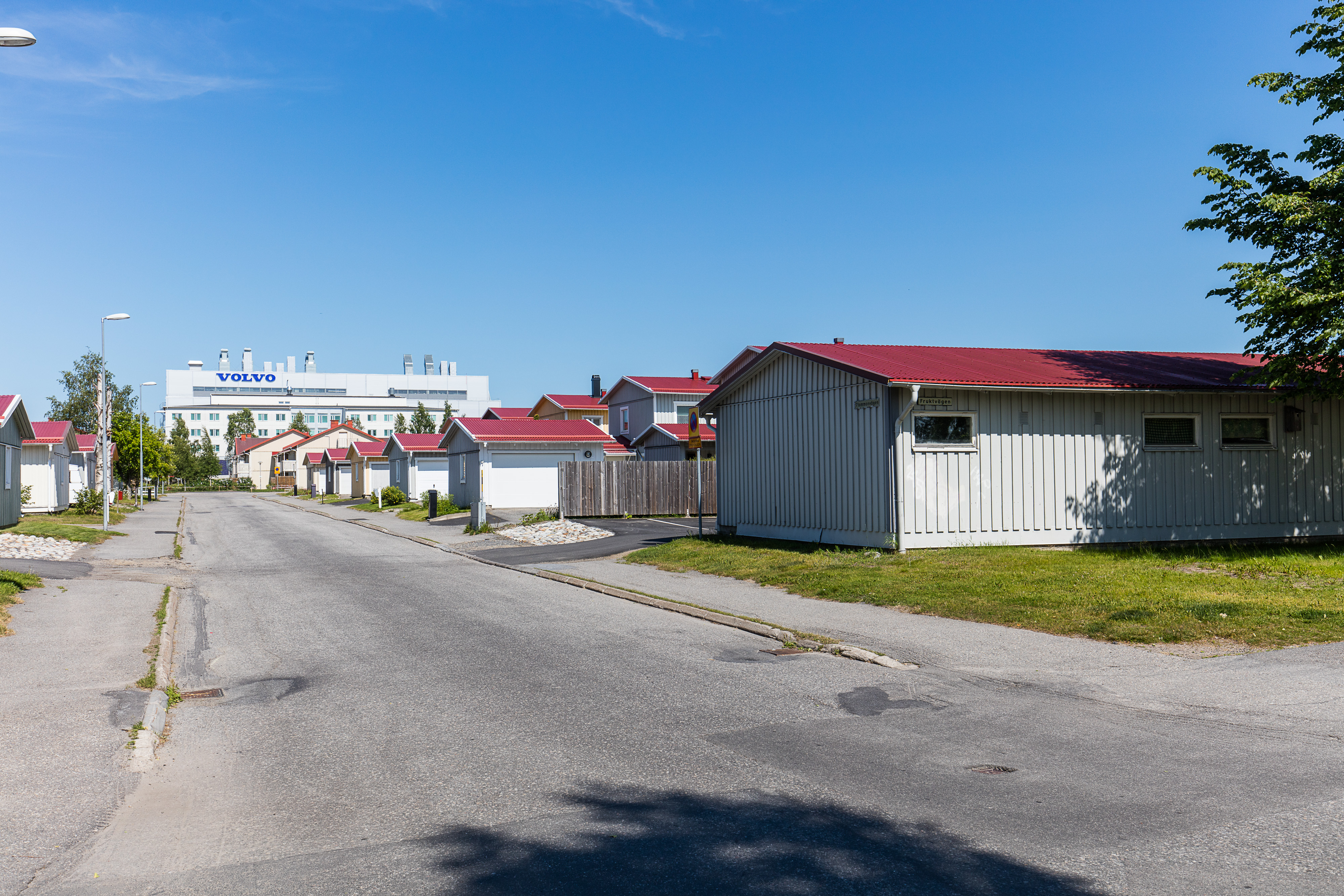 The Böleäng district in Umeå is close to the Volvo Truck factory, south of the Ume River.